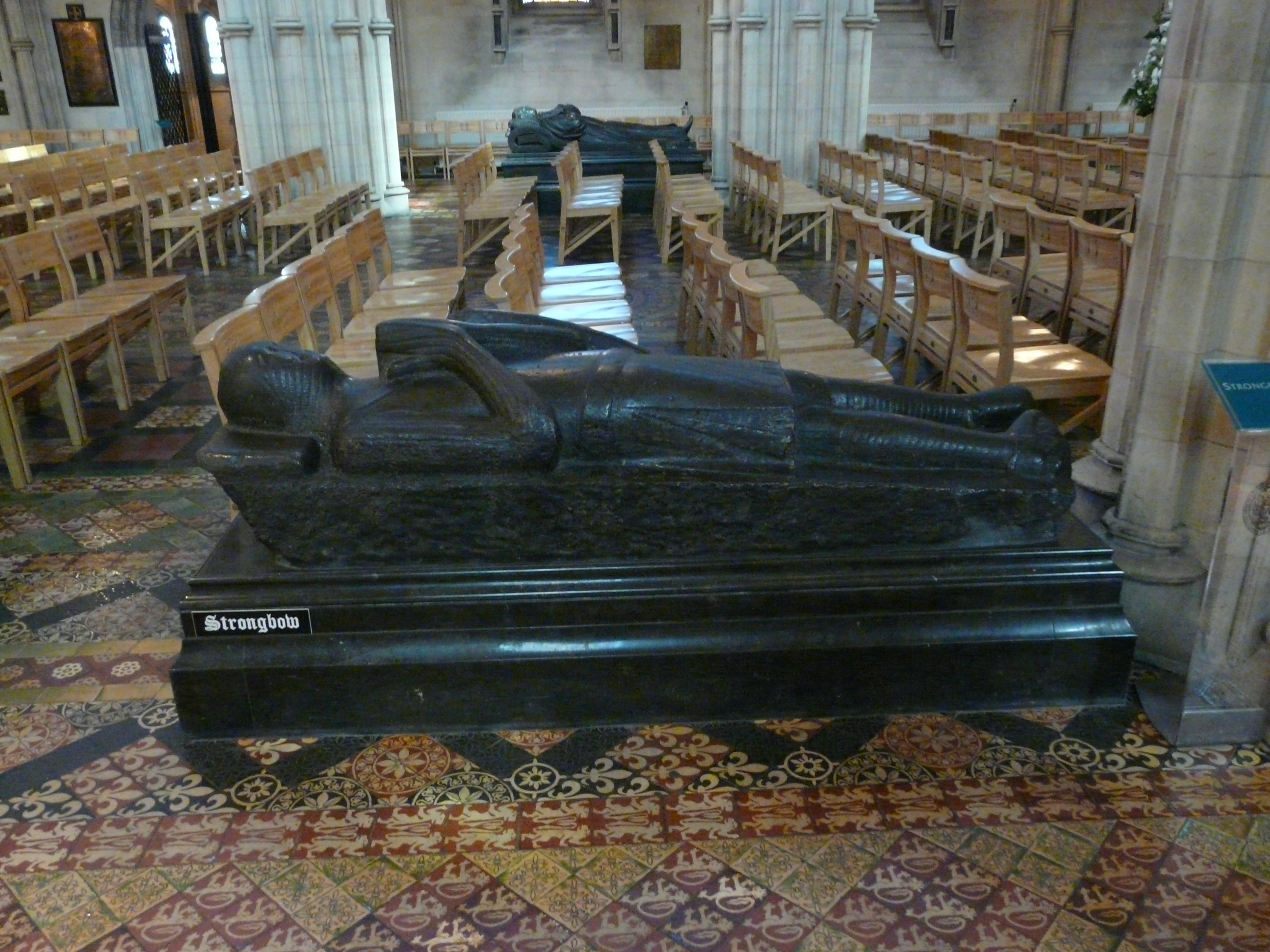 The effigy known as "Strongbow's." Strongbow's original effigy had been used as a meeting place for conducting business transactions, so, when the original was crushed in the 1562 partial collapse of the cathedral, this effigy was used as a replacement.